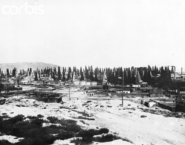 Original caption:1926-One of the largest oil fields in the world, over which wars have been threatened and yet may be fought, is in Russia, near Baku, on the Caspian Sea, where the wells are being worked by the Red Government. Here is a general view of a portion of the fields from inshore looking out towards the sea.